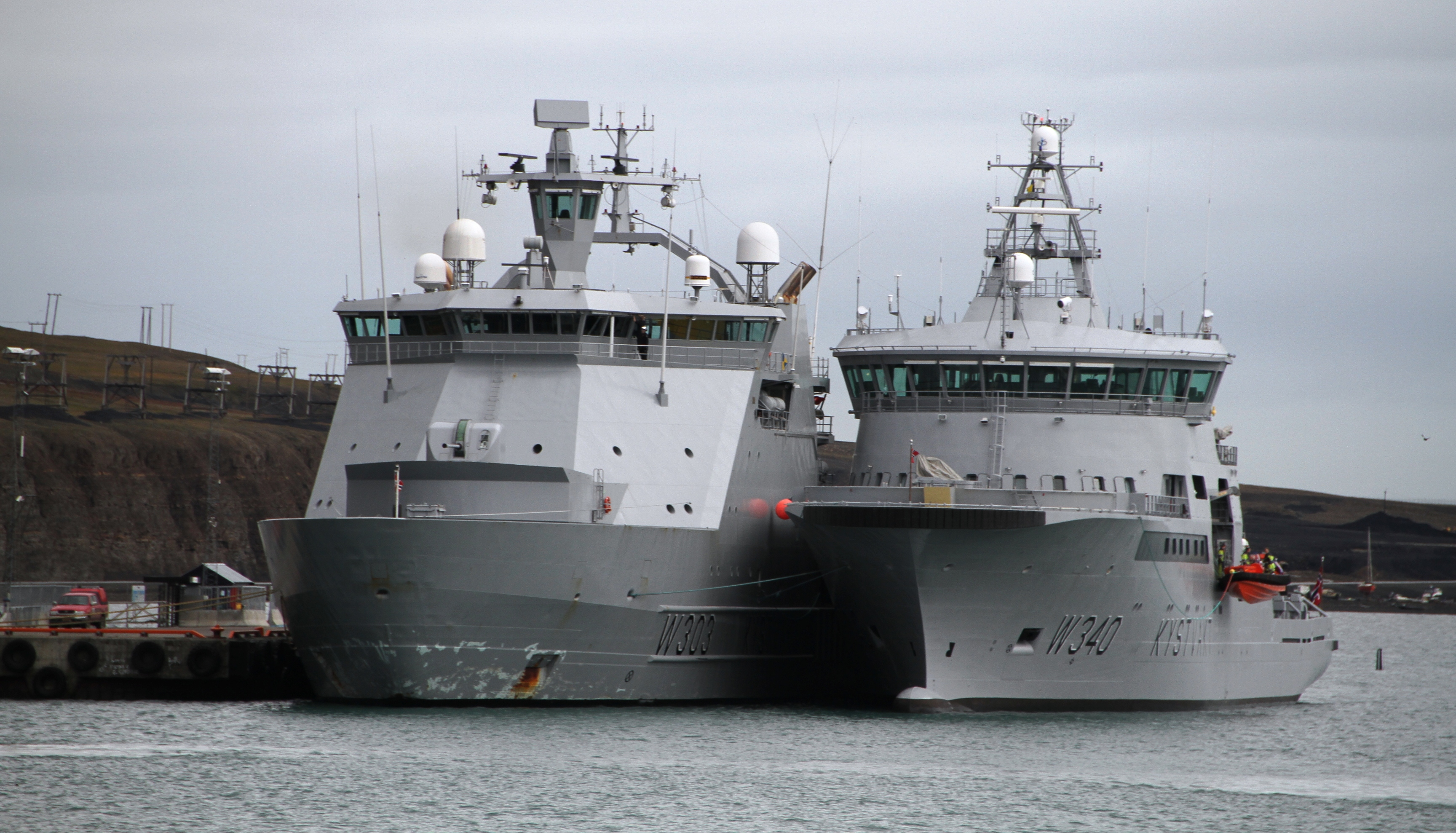 KV Svalbard (left) and KV Barentshav (right), two norwegian coast guard (Kystvakten) ships in Longyearbyen (Adventfjorden), Spitsbergen.